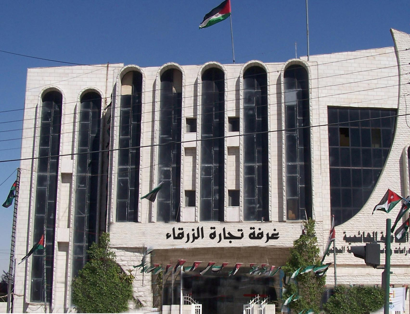 The trade center in Zarqa